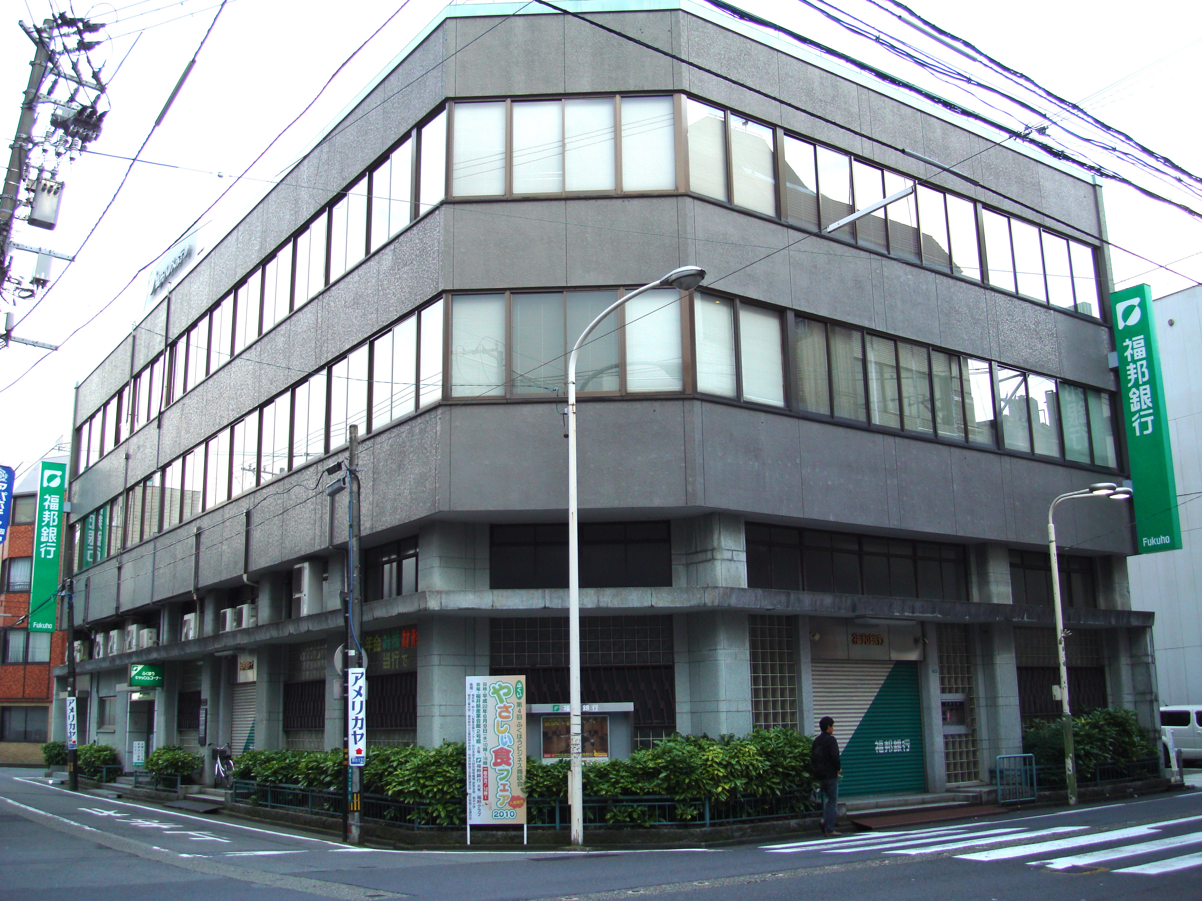 FUKUHO BANK Headquater(Fukui city, Fukui prefecture, Japan)